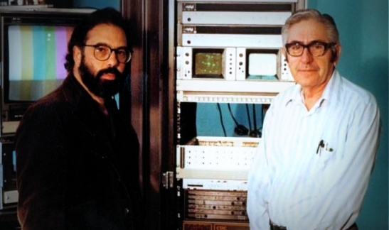 Petro Vlahos (right), an Academy-awarder visual-effect pioneer, with director Francis Ford Coppola (left)